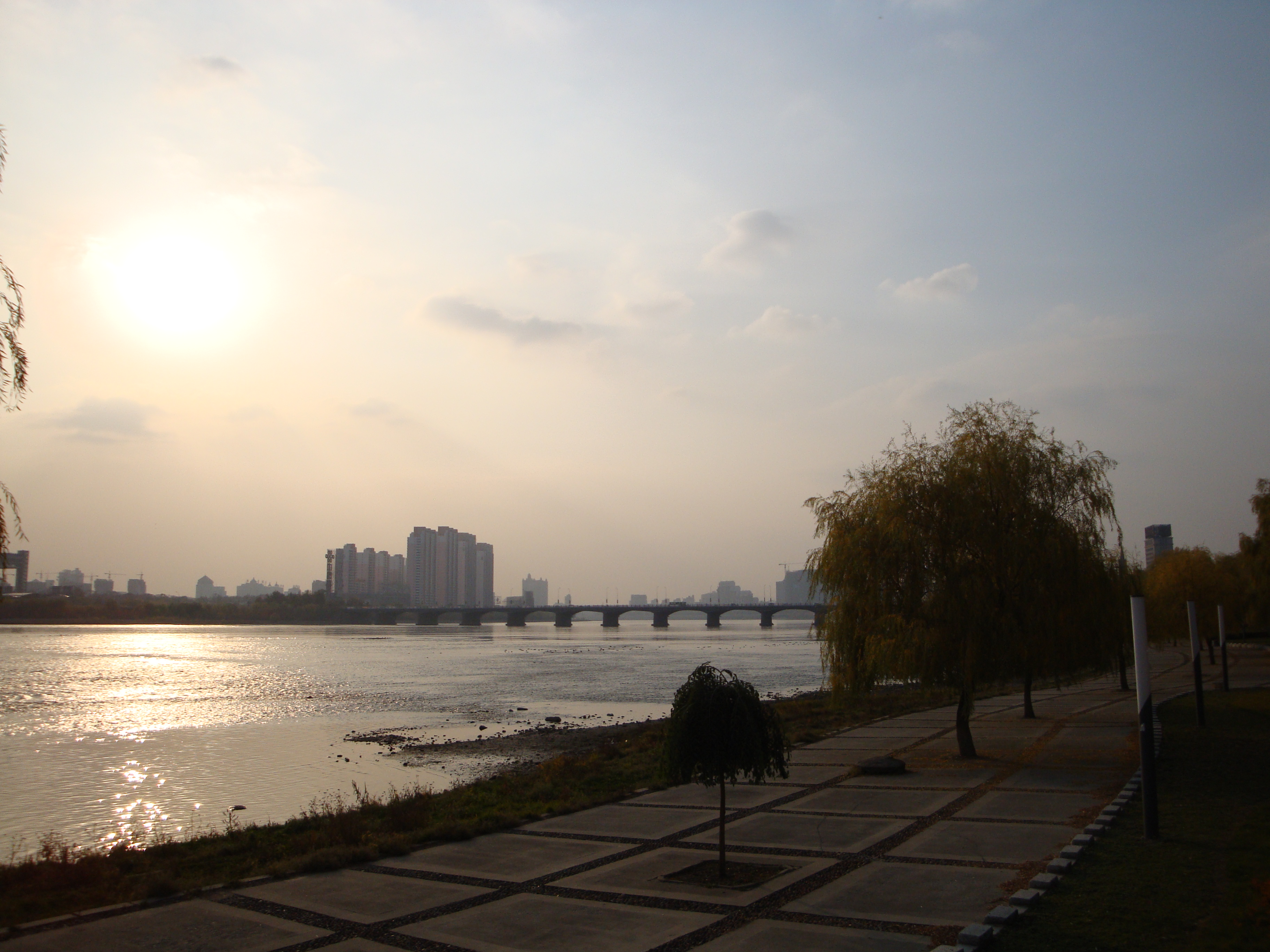 Songhua River